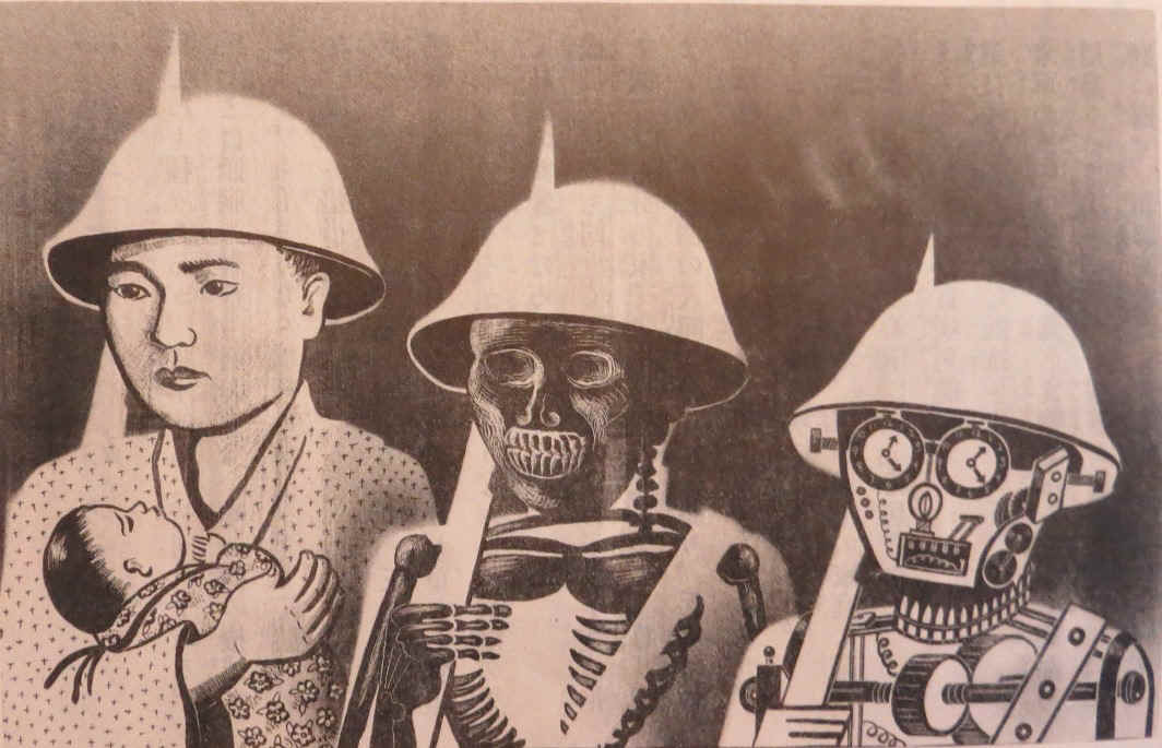 Illustration by Frances Blakemore for the U. S. Office of War Information, Propaganda Leaflet 414